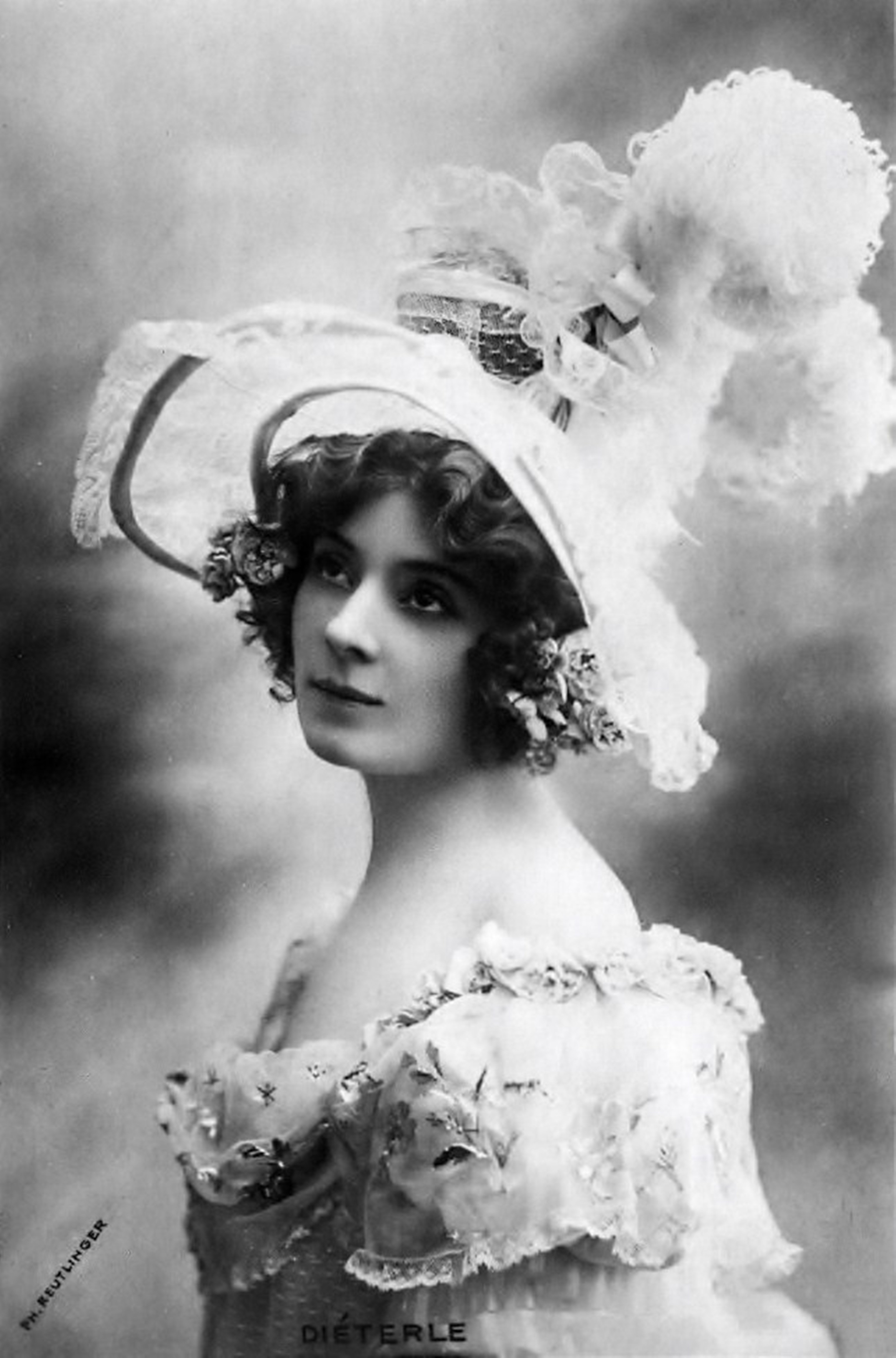 Amélie Diéterle is a French actress born in Strasbourg on 20 February 1871 and died in Cannes on 20 January 1941. She was legitimated in Paris in 1892 by Captain Louis Laurent, Knight of the Legion of Honor. Amélie Diéterle married in Vallauris on 16 June 1930 with André Simon (1877-1965). Amélie Diéterle plays mainly at the Théâtre des Variétés in Paris during the Belle Époque.